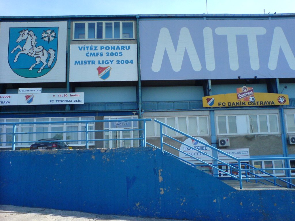 Stadium of FC Baník Ostrava.